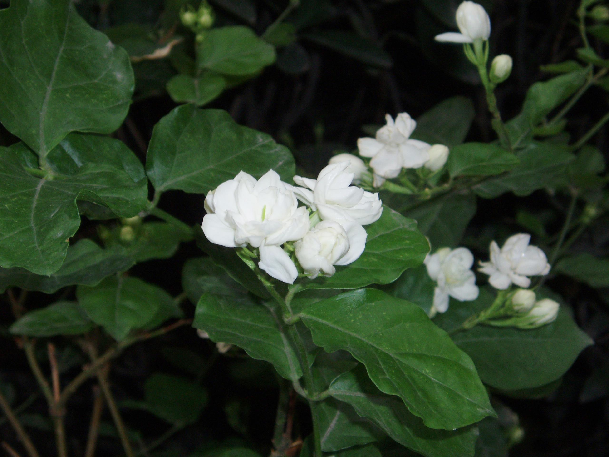 Arabian jasmin 'Arabian Nights'